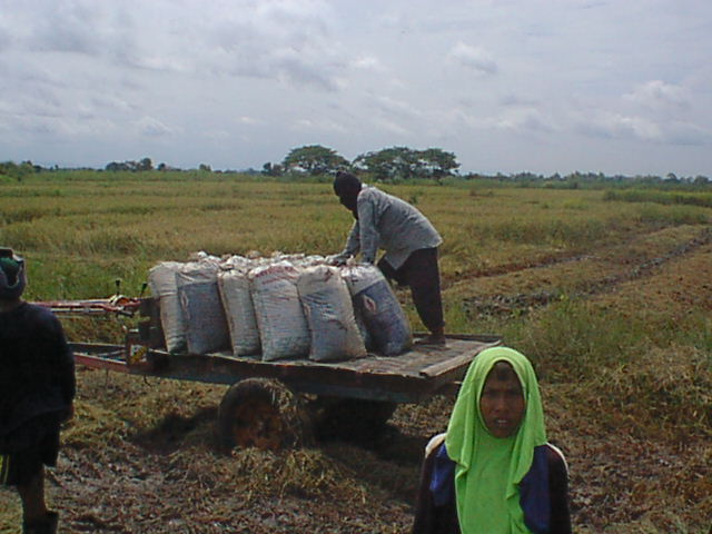 Loading rice on to a tractor in Ban Sam Ruen, Phitsanulok, Thailand